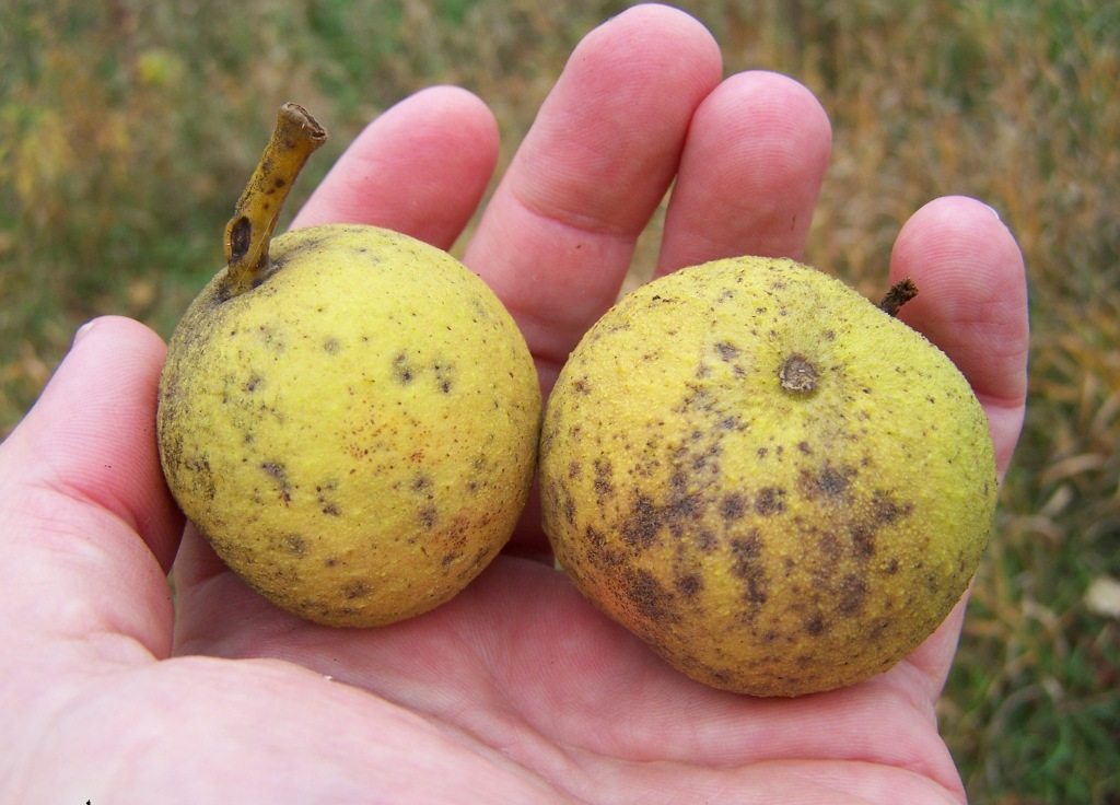 Black Walnut fruit Juglans nigra Location: Winfield IL USA Black Walnut